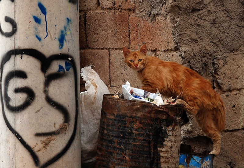 A street cat, Turkey